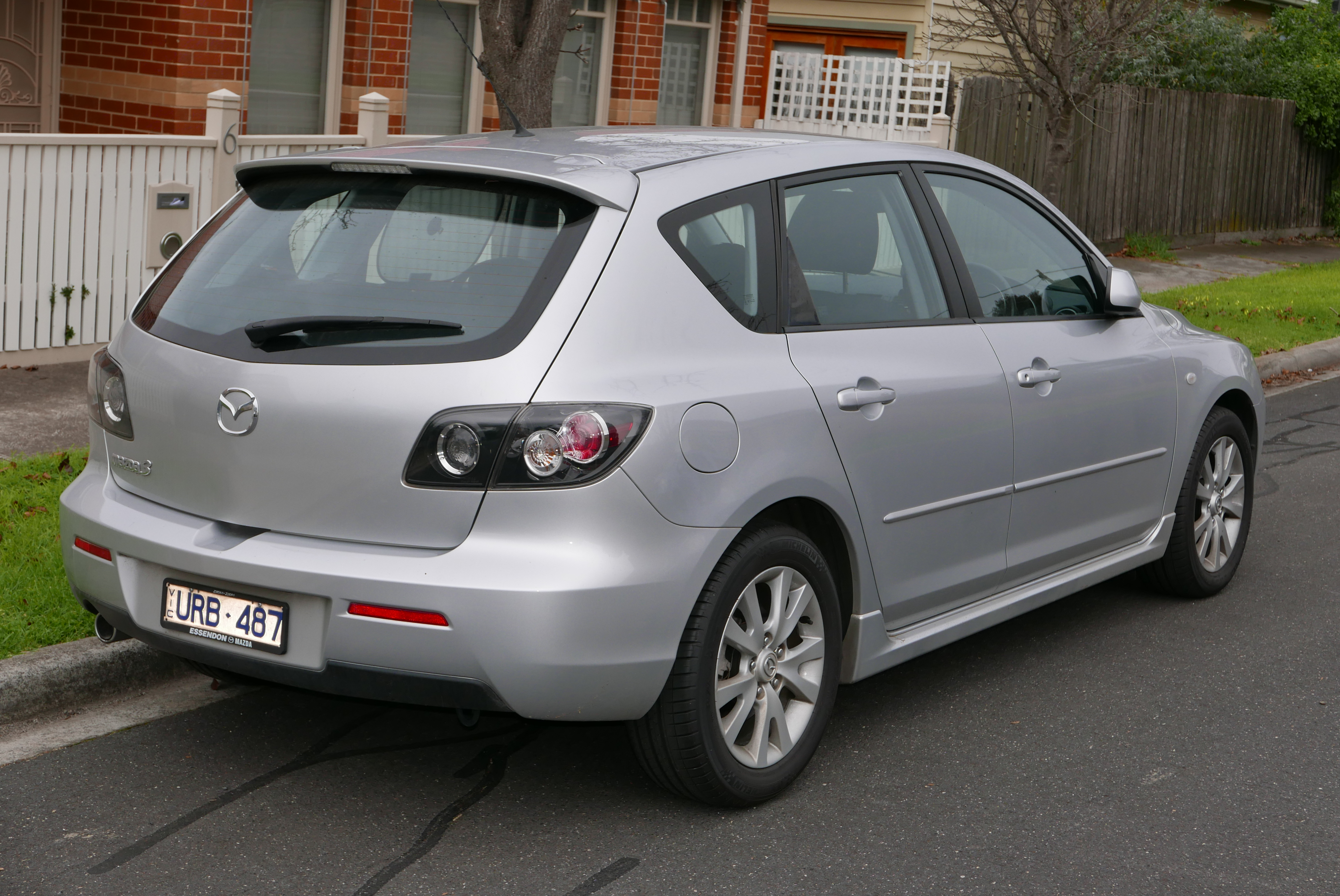 2007 Mazda3 (BK Series 2) Maxx Sport hatchback. Photographed in Ivanhoe, Victoria, Australia. Vehicle registration enquiry resultsJurisdictionVictoriaRegistrationURB487Chassis codeJM0BK10F200341867Engine codeLF10213775Compliance date2007-02Year of manufacture2007